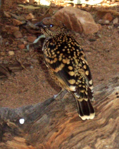 Western Bowerbird (Chlamydera guttata) in Desert Park, Alice Springs, Australia, winter 2007.